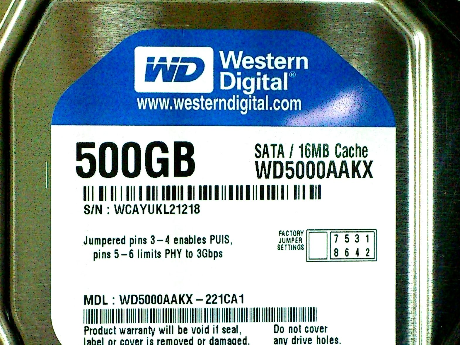 show the 16MB buffer of a hard disk